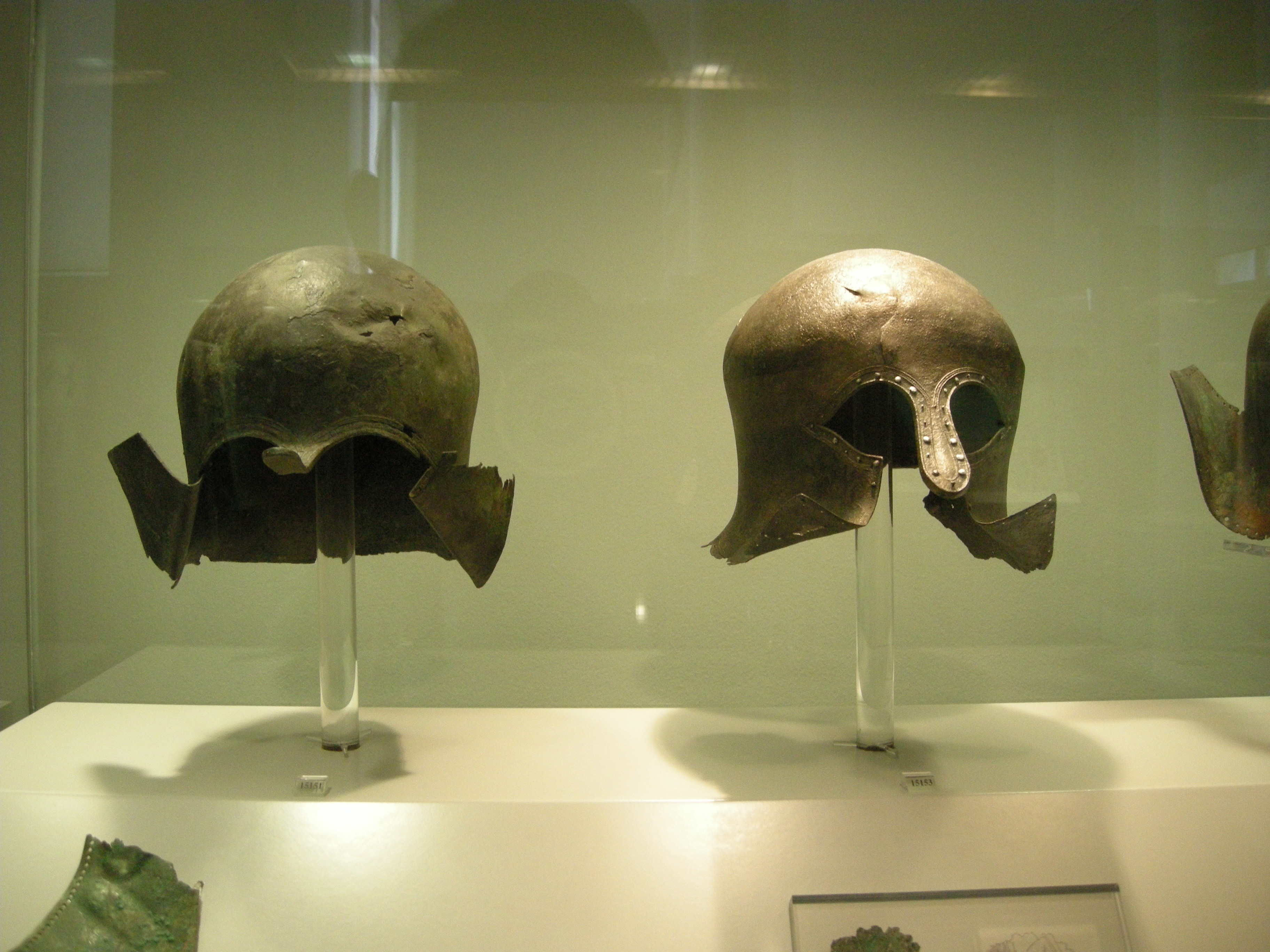 Corinthian helmets from Greece, National Archaeological Museum of Athens.